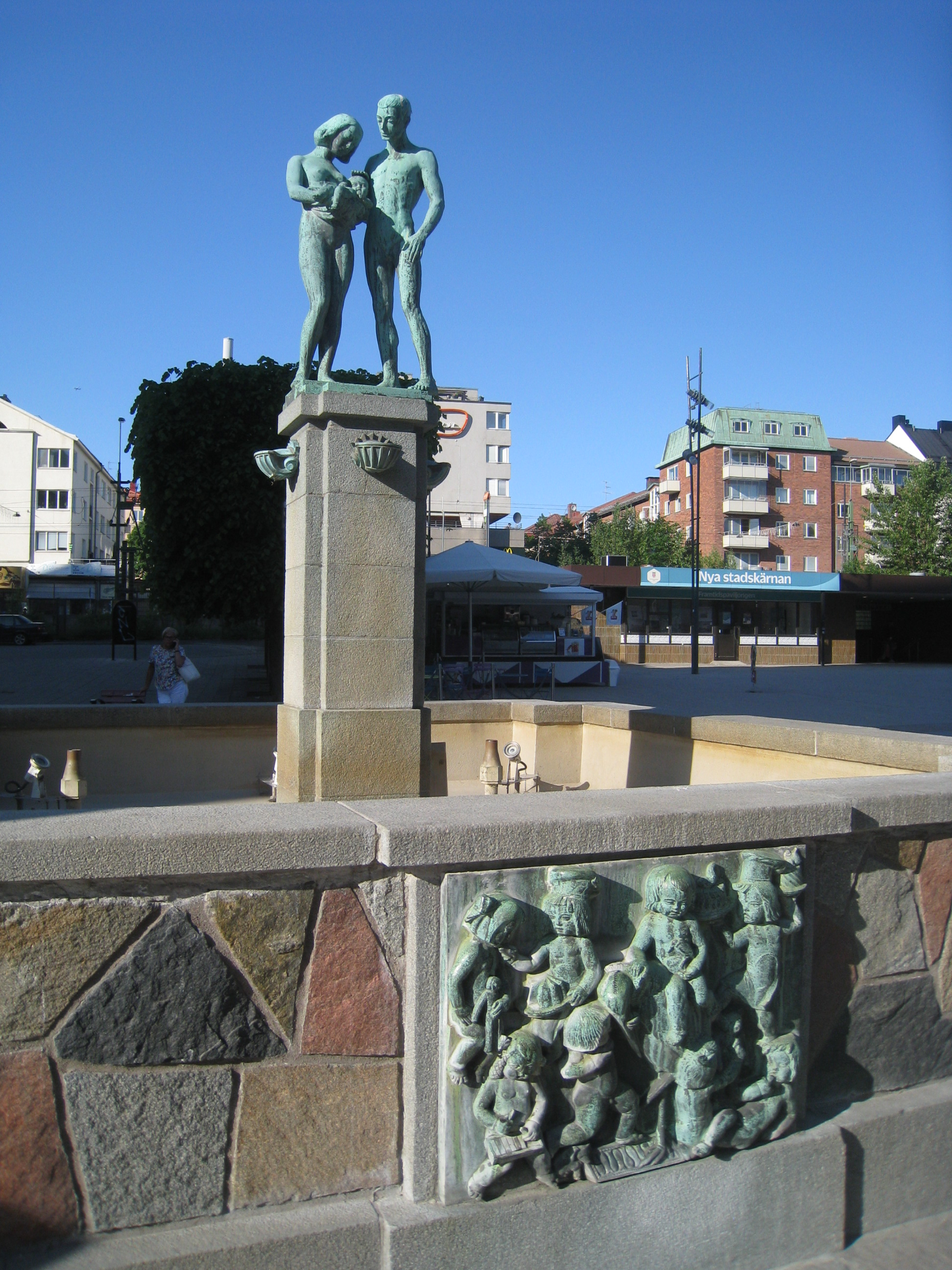 The sculpture group "Family happiness" or "The happy family", fountain on Sundbyberg's square by sculptor Carl Fagerberg (1878-1948) symbolizes the young Sundbyberg. It was built in bronze 1933 together with a well known as Industribrunnen with four bronze reliefs. Marabou donated it to the city of Sundbyberg and it was opened on May 1, 1934.